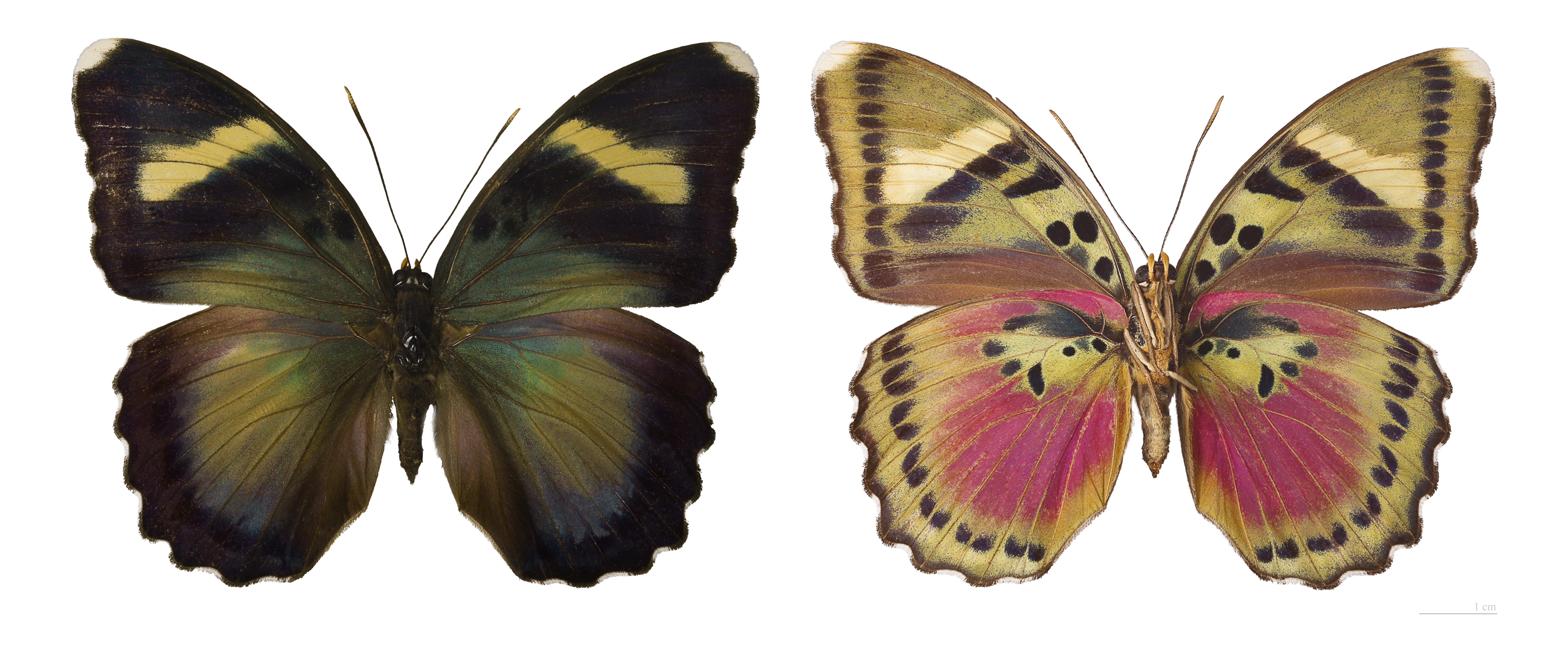 ♀ - Two views of same specimen Locality: Sébobokélé, Central African Republic